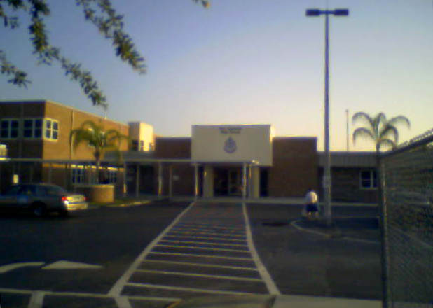 The front of the Port Charlotte High School campus in Port Charlotte, Florida.